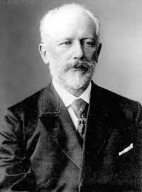 Russian composer Пётр Ильи́ч Чайко́вский, Pyotr Ilyich Tchaikovsky (1840-1893).